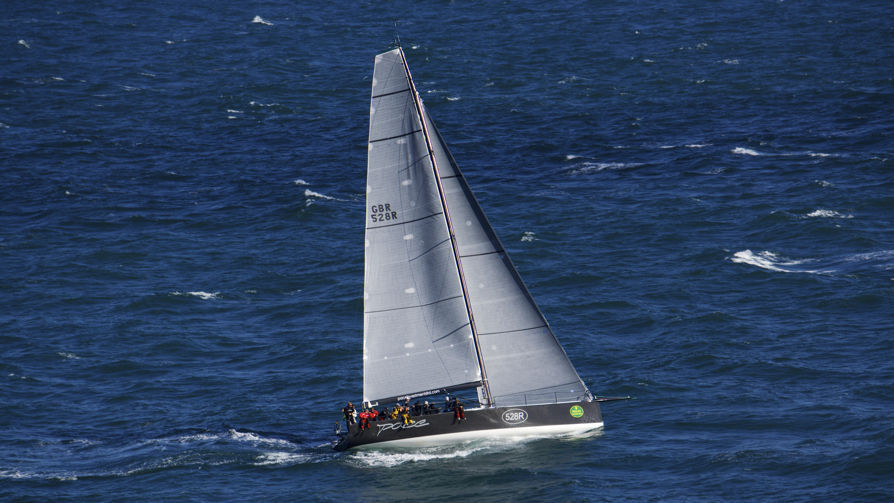 Seen from Durlston Head, Swanage. GBR 528R Pace Owner Johnny Vincent Type TP52 A few hours after departing Cowes on the Isle of Wight